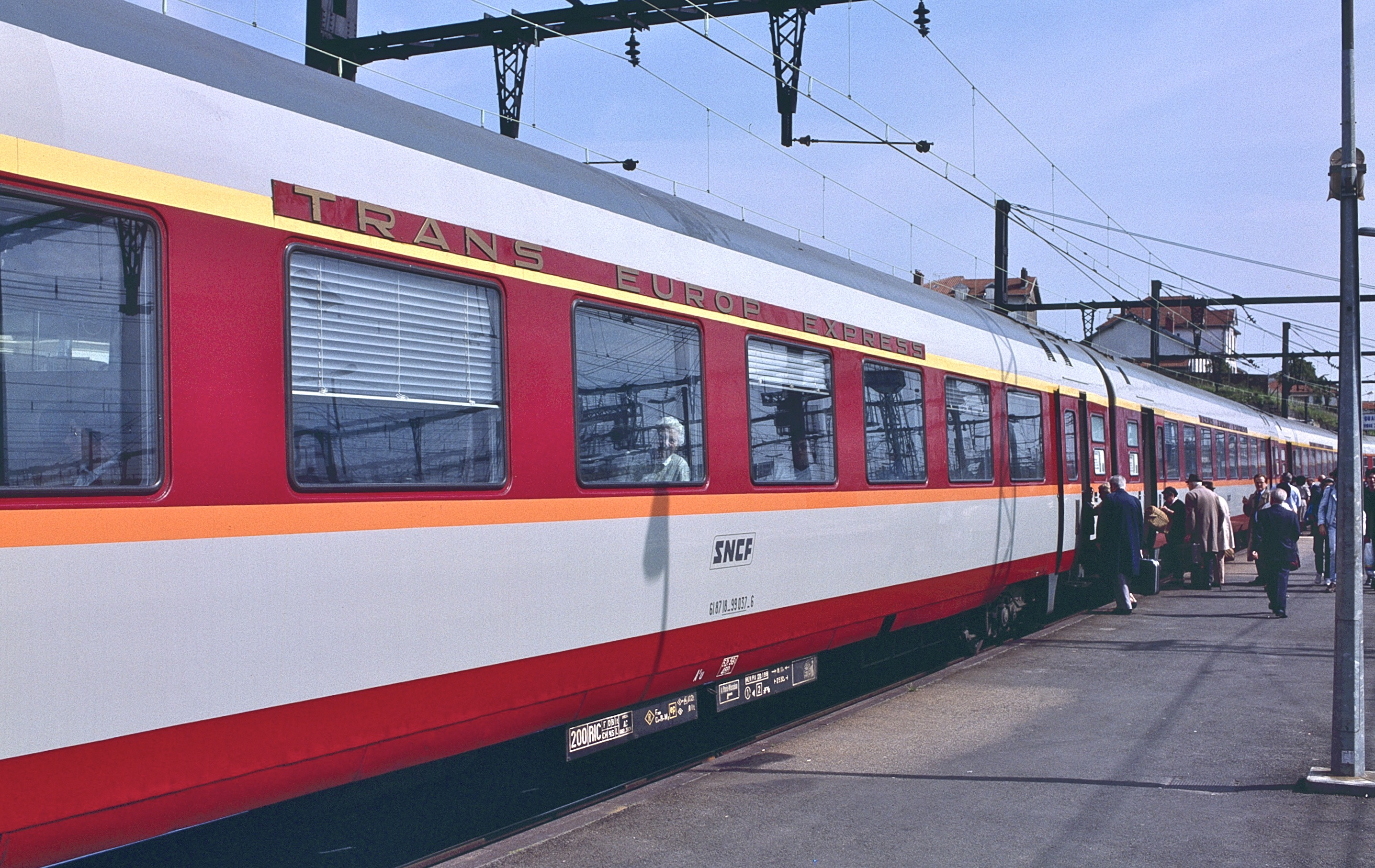 SNCF "Grand Confort"-type first-class passenger cars, ex-Trans Europ Express, on the Rapide train Le Capitole du Matin, about to depart Limoges (Bénédictins) station for Paris in 1988.